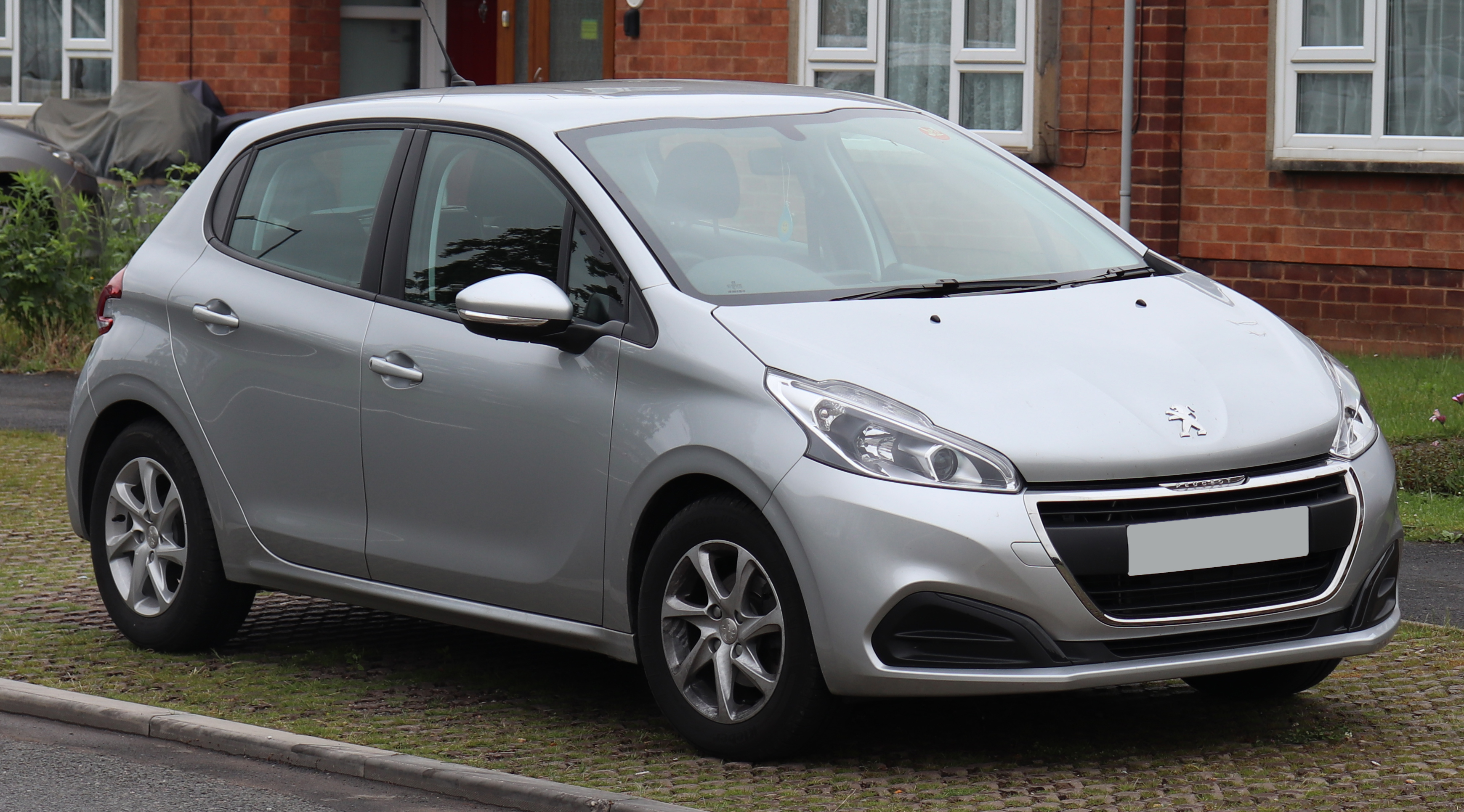 2017 Peugeot 208 Active 1.2 facelift Front Taken in Warwick